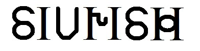 The word "SIMLISH" in Simlish